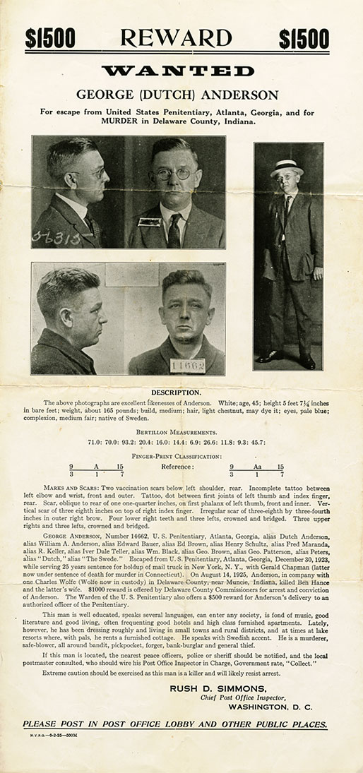 Wanted poster of George "Dutch" Anderson following his 1923 escape from Atlanta Federal Prison. The poster itself was published by by the U.S. Postal Inspection Service, and the mugshots were taken by the BOP prior to 1923.